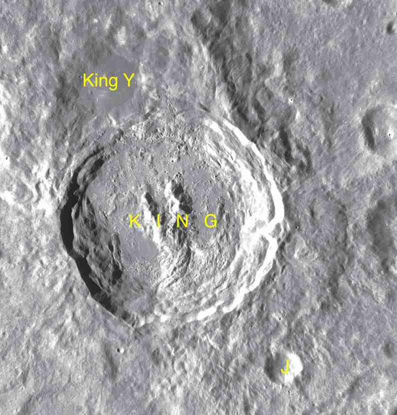 Part of the chart LAC-65 used for the presentation